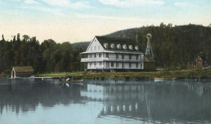 Print (photomechanical), Laurentian House, Sixteen Island Lake, QC, about 1910, Coloured ink on paper mounted on card - Photolithography - 8.7 x 13.7 cm